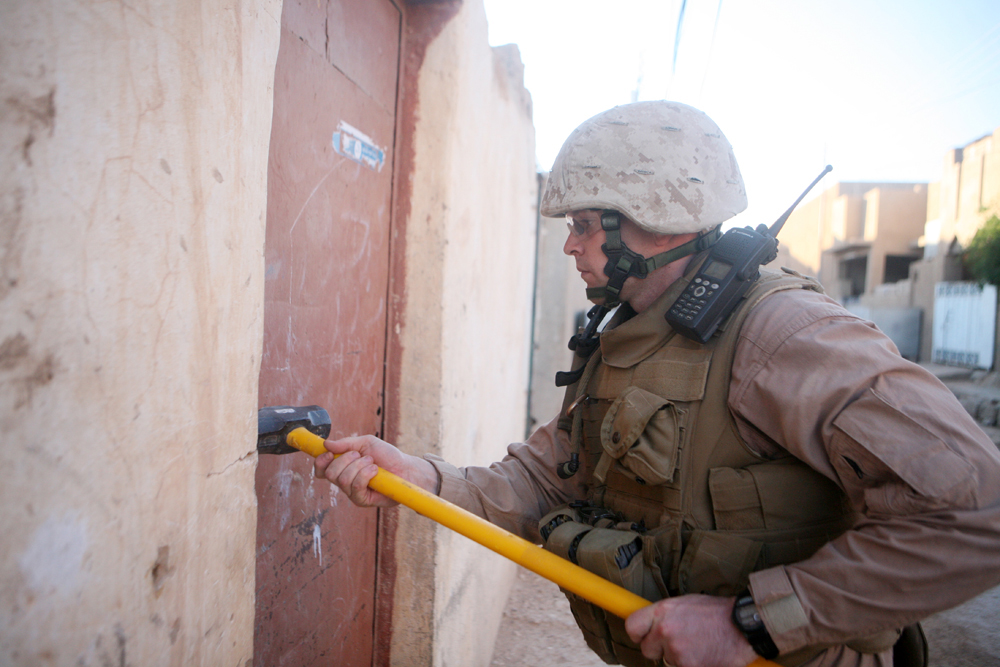 Gunnery Sgt. Daniel T. Jones, a platoon sergeant with Mike Battery, 14th Marine Regiment, 2nd Light Armored Reconnaissance Battalion, Regimental Combat Team 5, hammers a door to a storage space during a cache search in Rutbah, Iraq, June 20. Although the city of Rutbah has become safer, the insurgency is still out there and the Marines with the Chattanooga, Tenn., based unit will be there to there to find them.